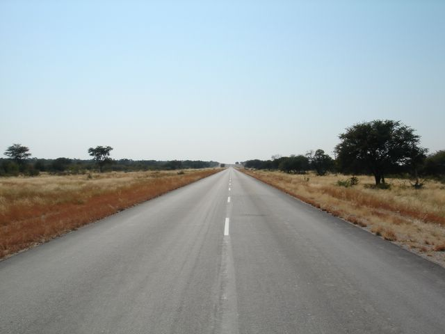 Sealed road on the way from Rundu to Etosha, Namibia